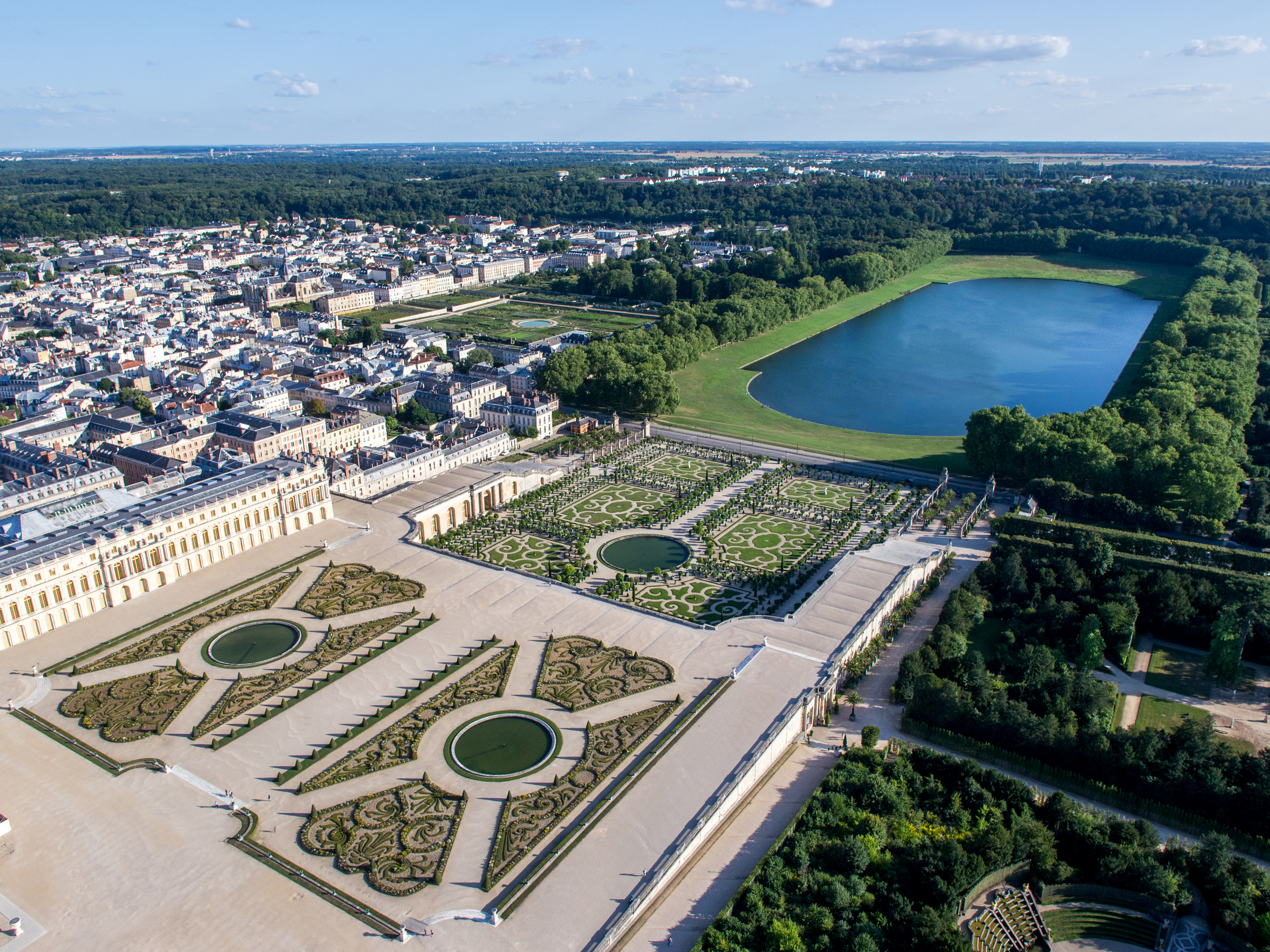 Aerial view of the Gardens of Versailles, France, with the Parterre du Midi, the Orangerie Garden and the Pièce d'eau des Suisses. On the left, l'aile du Midi (West Wing) of the Palace of Versailles . On the right, a part of the bosquet des Rocailles. In the background le potager du roi (King vegetable garden) and the Quartier Saint-Louis (Saint-Louis neighborhood) of the city of Versailles.